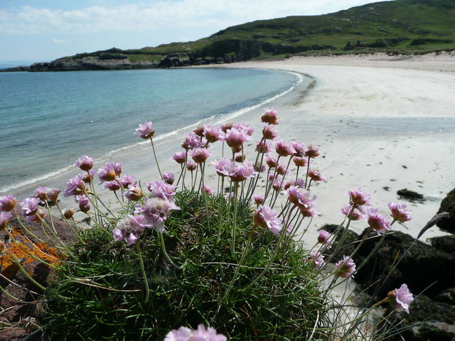 Thrift growing above beach at Samhnan Insir